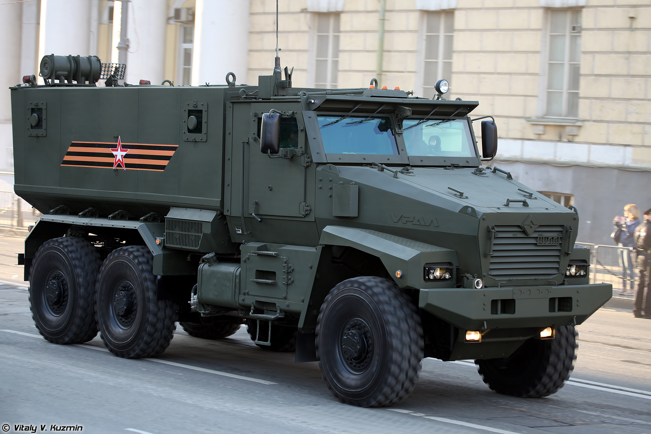 Ural-63095 Typhoon-U MRAP vehicle